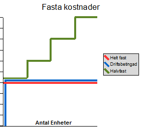 Fixed Cost in swedish